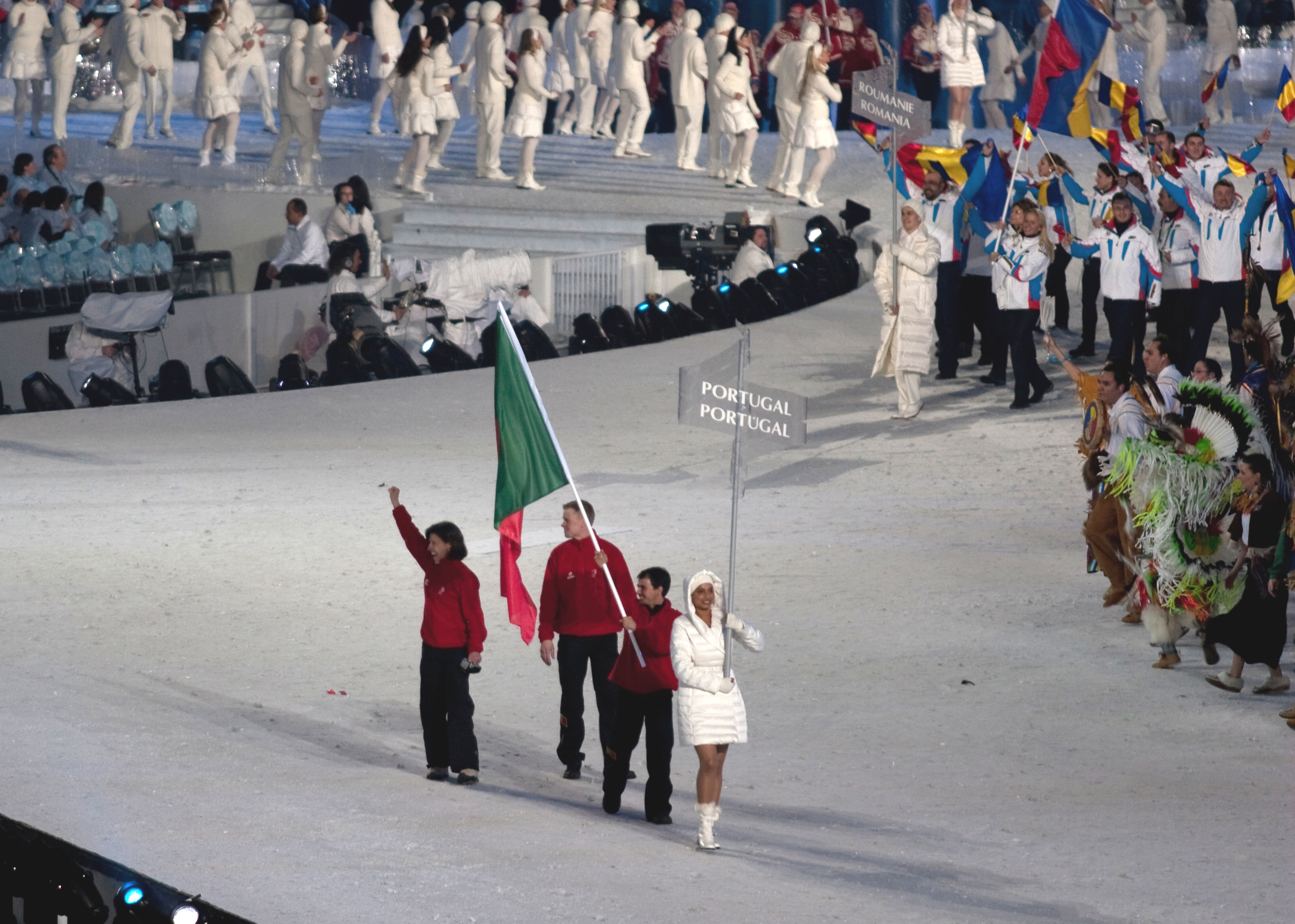 The athletes from Portugal entering the stadium at the opening ceremonies of the 2010 Winter Olympics